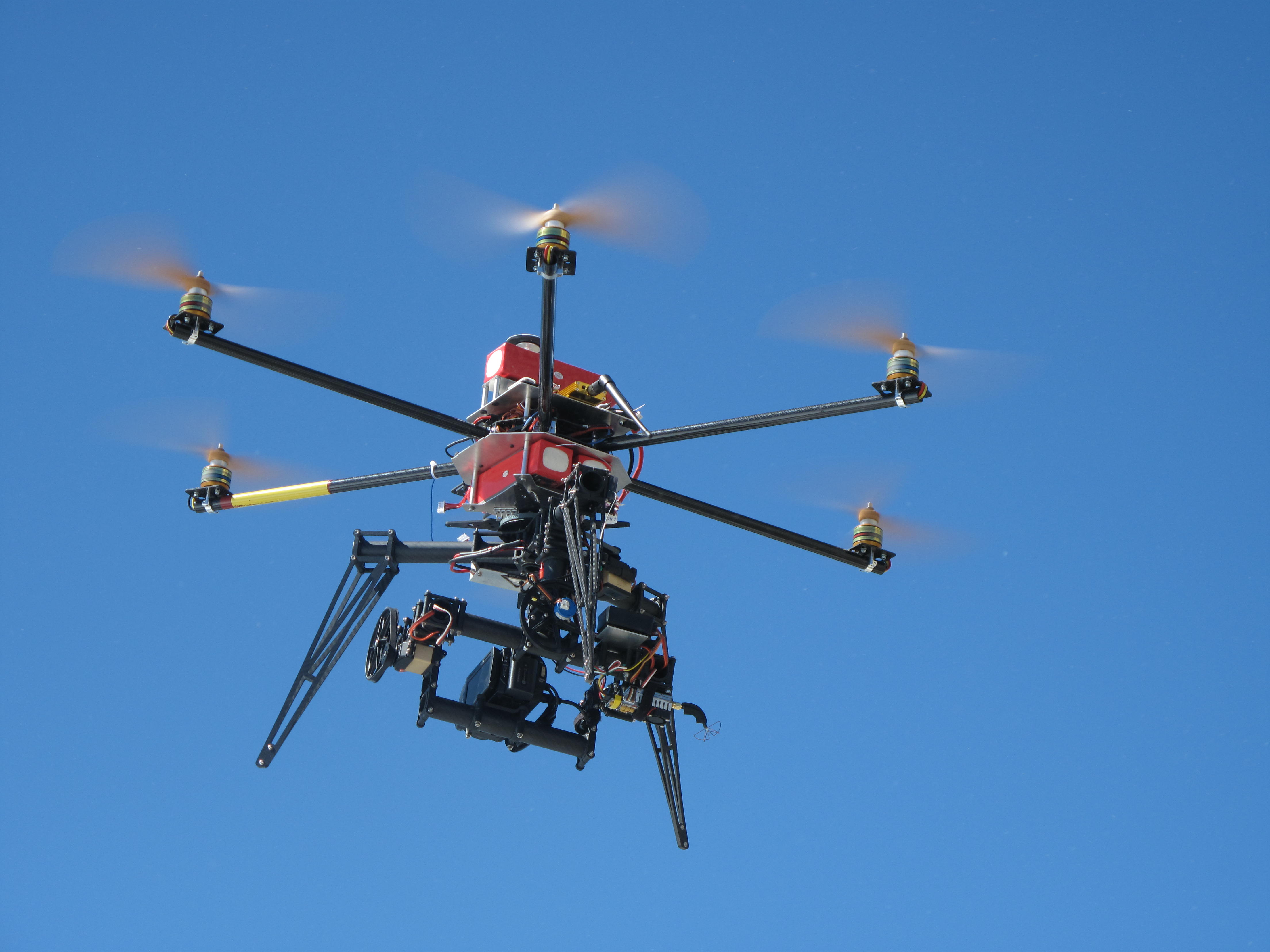 Hexarotor at the aiguille du Midi, used to film alpinists when training (Haute-Savoie, France).